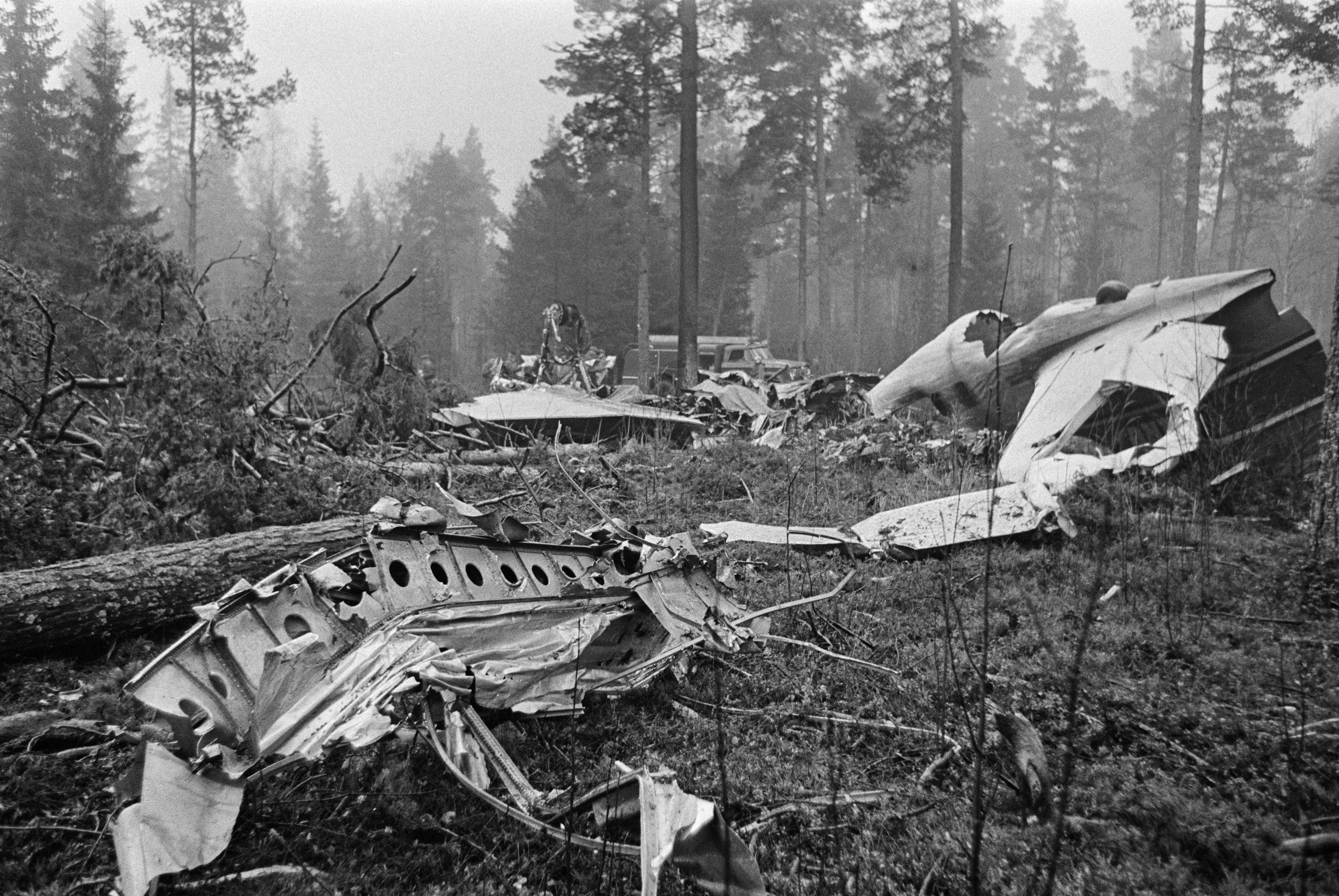 Photograph of the Wreckage of Douglas C-47A-35-DL (DC-3) aircraft (OH-LCA) of Aero O/Y near Mariehamn Airport in Jomala, Åland, Finland, following the accident of AY311.